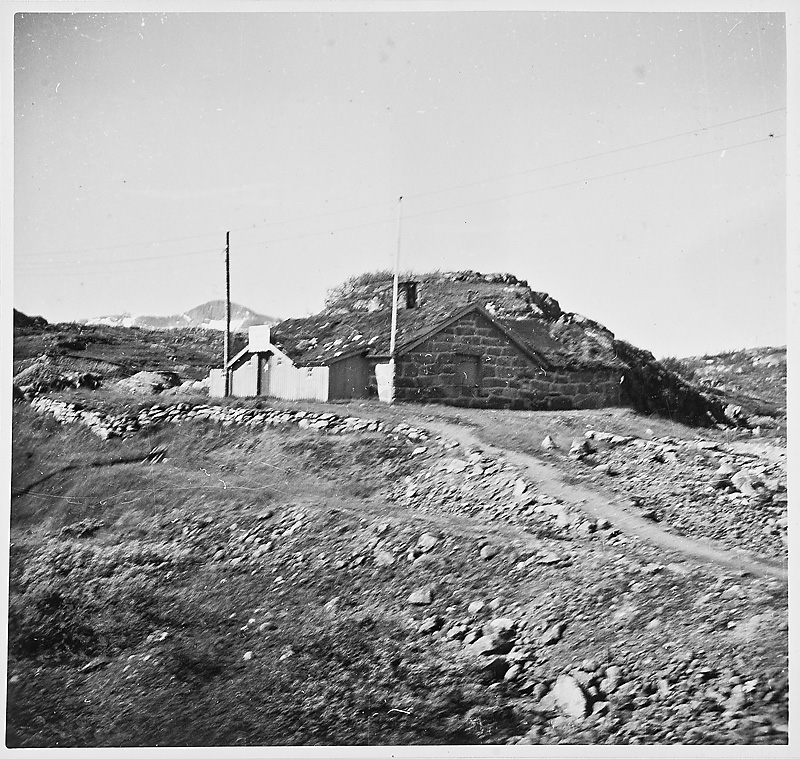 Image from "Photo Album from Terboven's journey to Nothern Norway and Finland 10–27 July 1942" (Mit dem Reichskommissar nach Nordnorwegen und Finnland 10. bis 27. Juli 1942), 375 images uploaded to www. by Riksarkivet (National Archives of Norway) 2012. See scanned album here